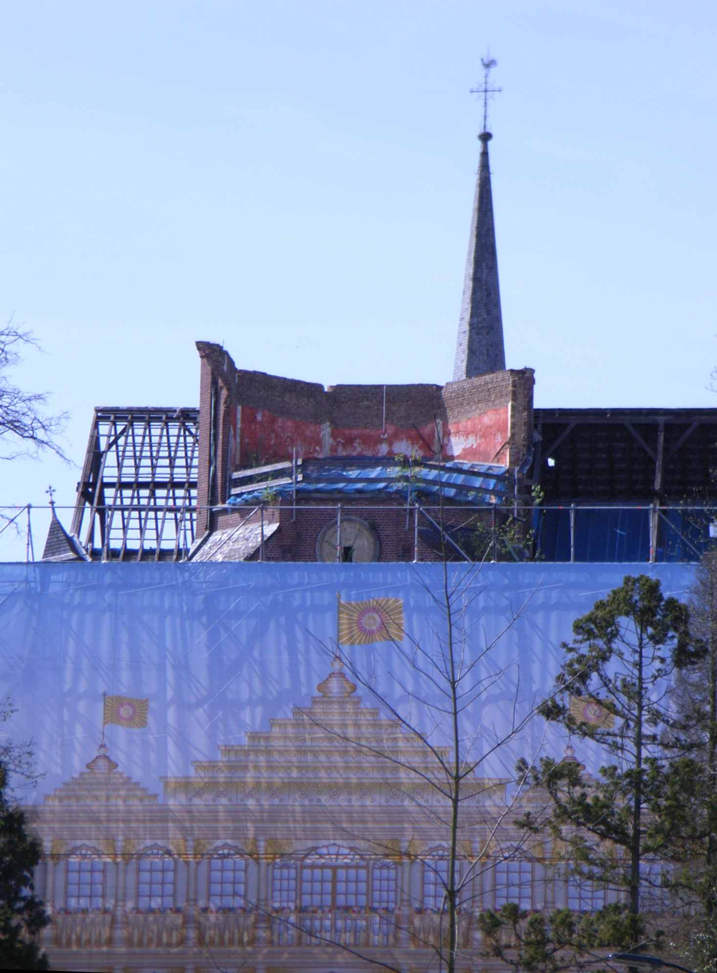 Building detail (Eastern Front) of Kolleg St. Ludwig, ruined and hidden by the Maharishi Vedic University, Vlodrop, NL